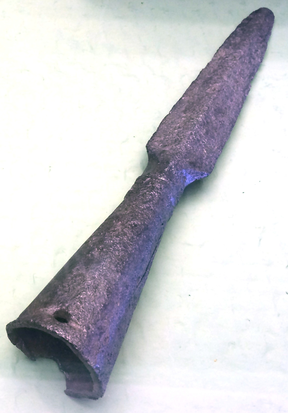 Metalwork from the legionary (military) workshop in 2nd Century AD Aquincum, a roman city North of today's Budapest, Hungary.